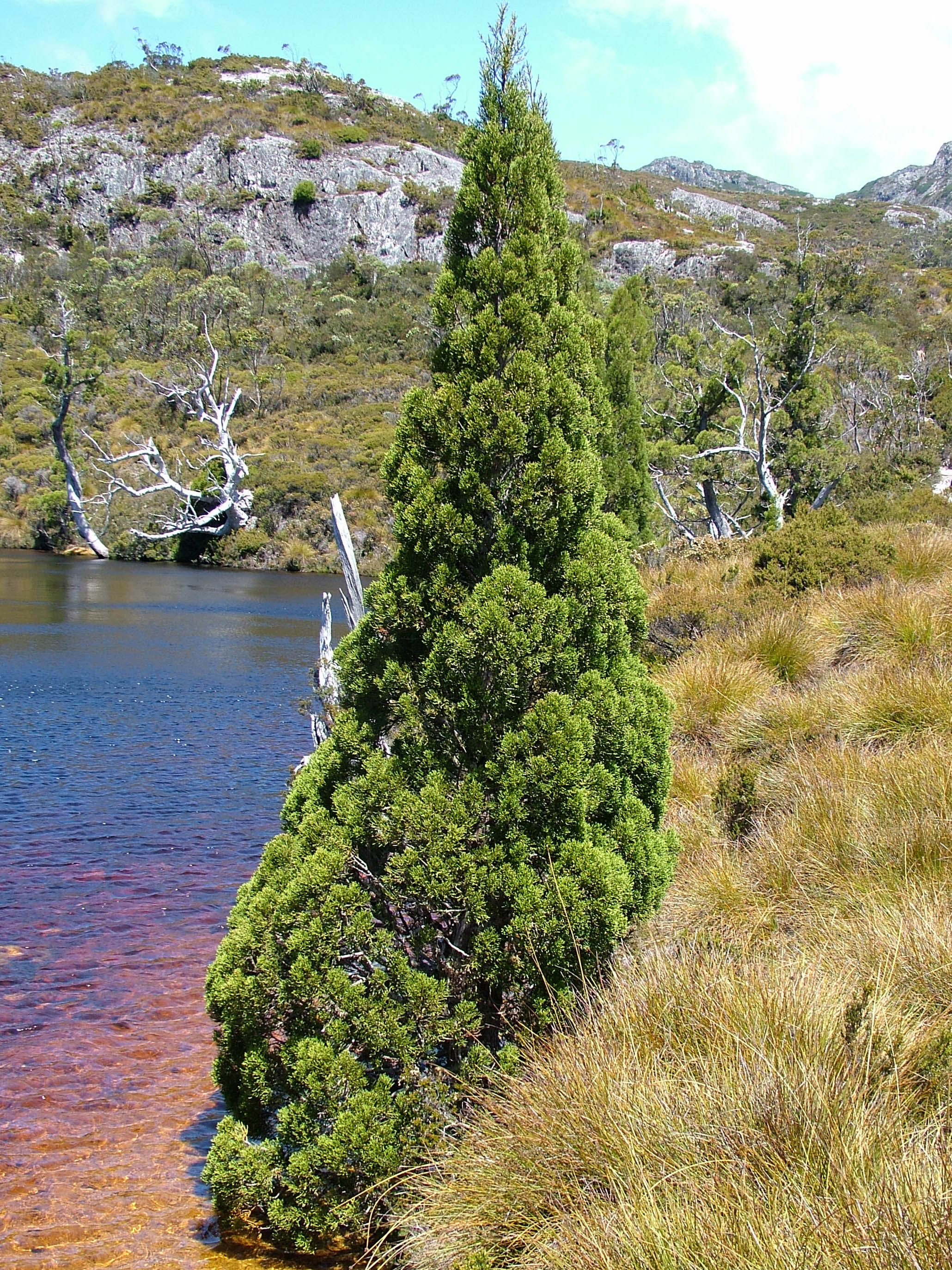 Plant of Athrotaxis cuppressoides, Cradle Mt National Park, Tasmania, Australia